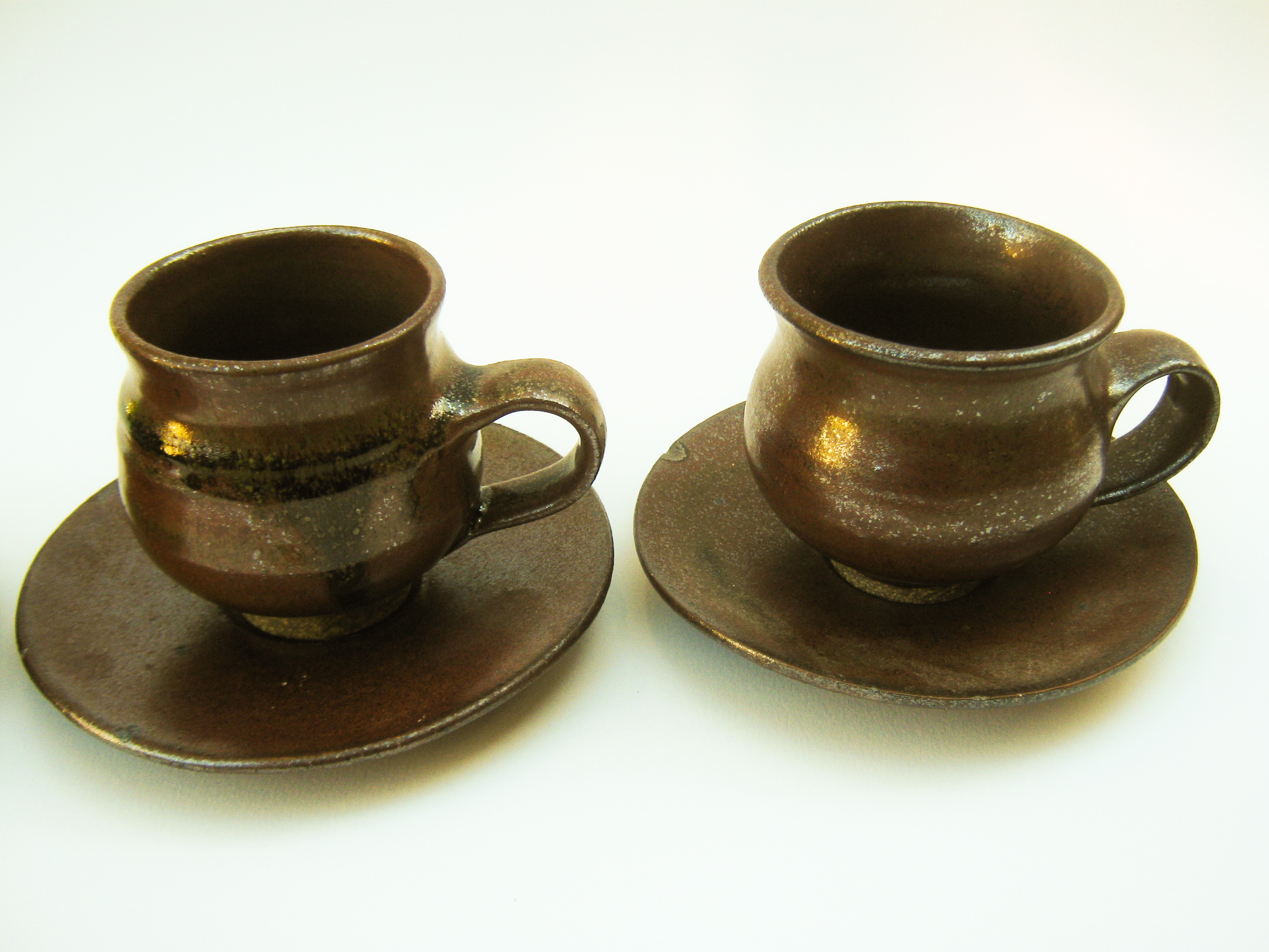 Two iron-glazed stoneware cups and saucers by Ian Sprague 1960s; photographed in a private collection at Elwood Victoria